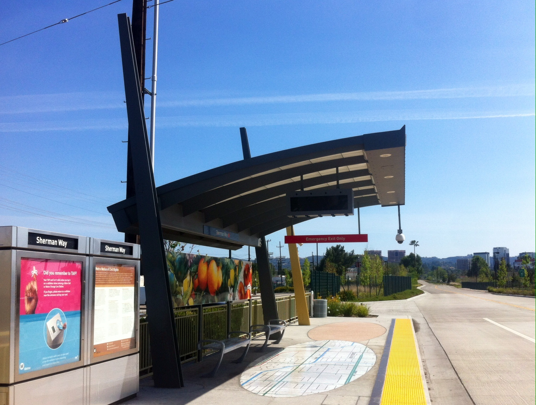 The platform view of Sherman Way Station.